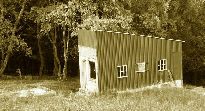 Skilift "Chapouilloux" at Chalmazel ski resort (France, Loire)